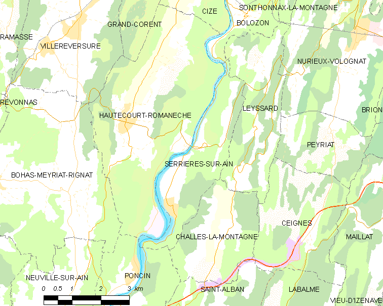 Map of French commune: Serrières-sur-Ain Map commune FR insee code 01404.png